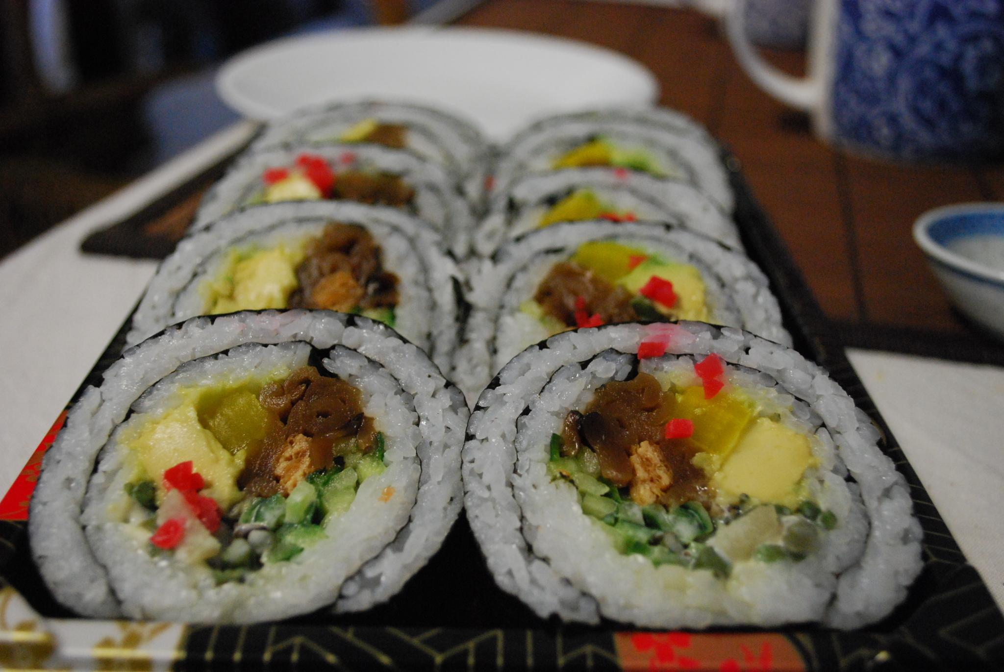 Suzuran Japan Foods Trading Pty Ltd Camberwell VIC Feng and Mum's birthday at mum's place. Omega and Hong bought a huge sushi and sashimi platter plus 3 other sushi packs from Suzuran. Julia and I made okonomiyaki, including a Modan-Yaki (Modern Yaki) with Mi-Goreng noodles flavoured with supplied kicap manis and Julia added Worchestershire sauce and a bit of sugar, all topped with okonomiyaki sauce and Japanese mayonaise. We finished every last bit!